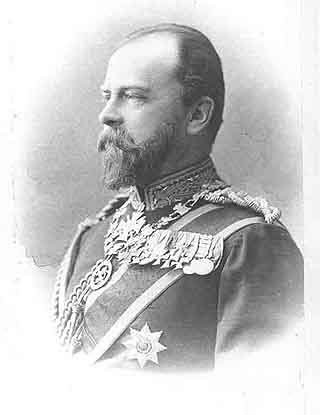 Prince Wilhelm of Hesse and by Rhine